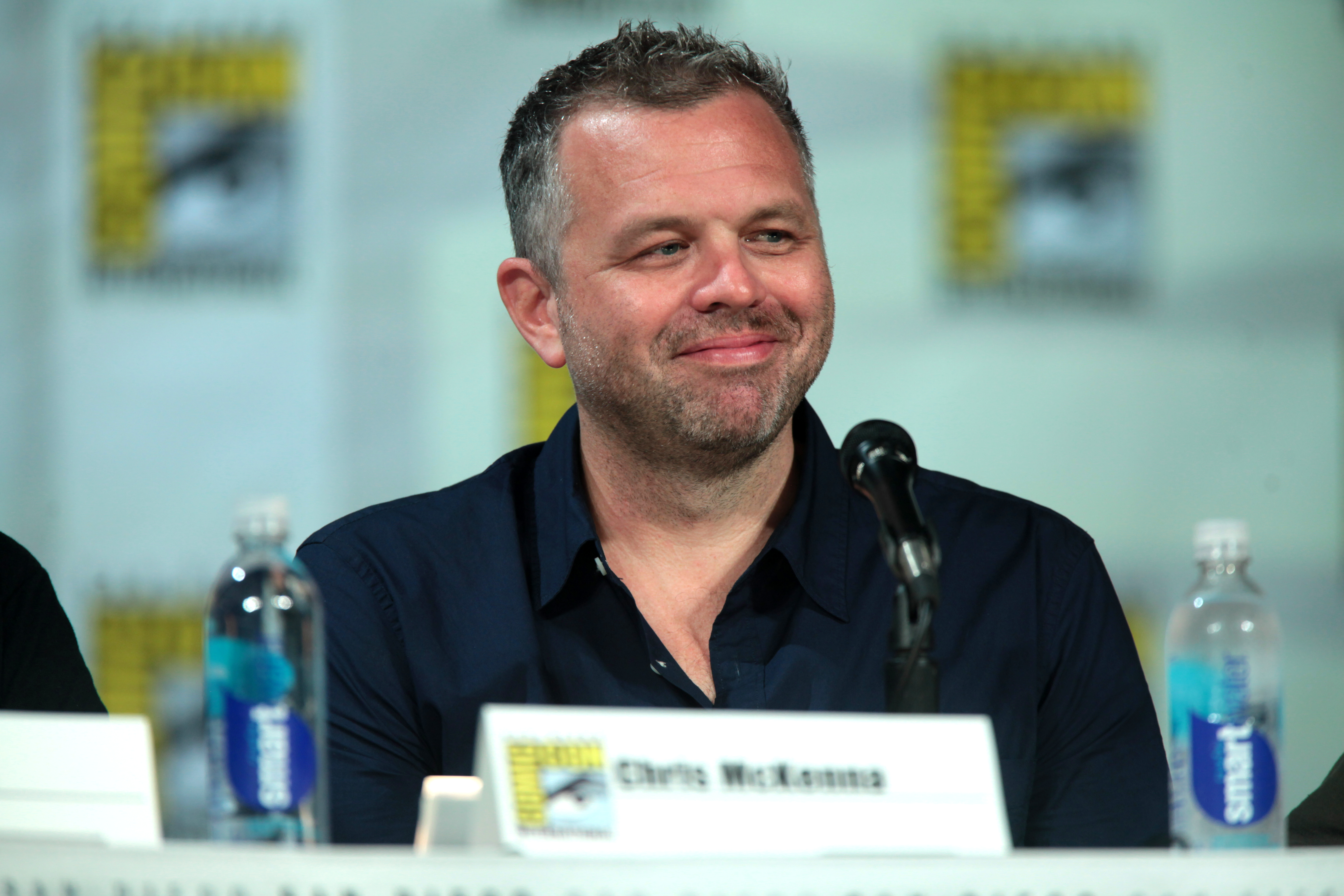 Chris McKenna speaking at the 2014 San Diego Comic Con International, for "Community", at the San Diego Convention Center in San Diego, California.